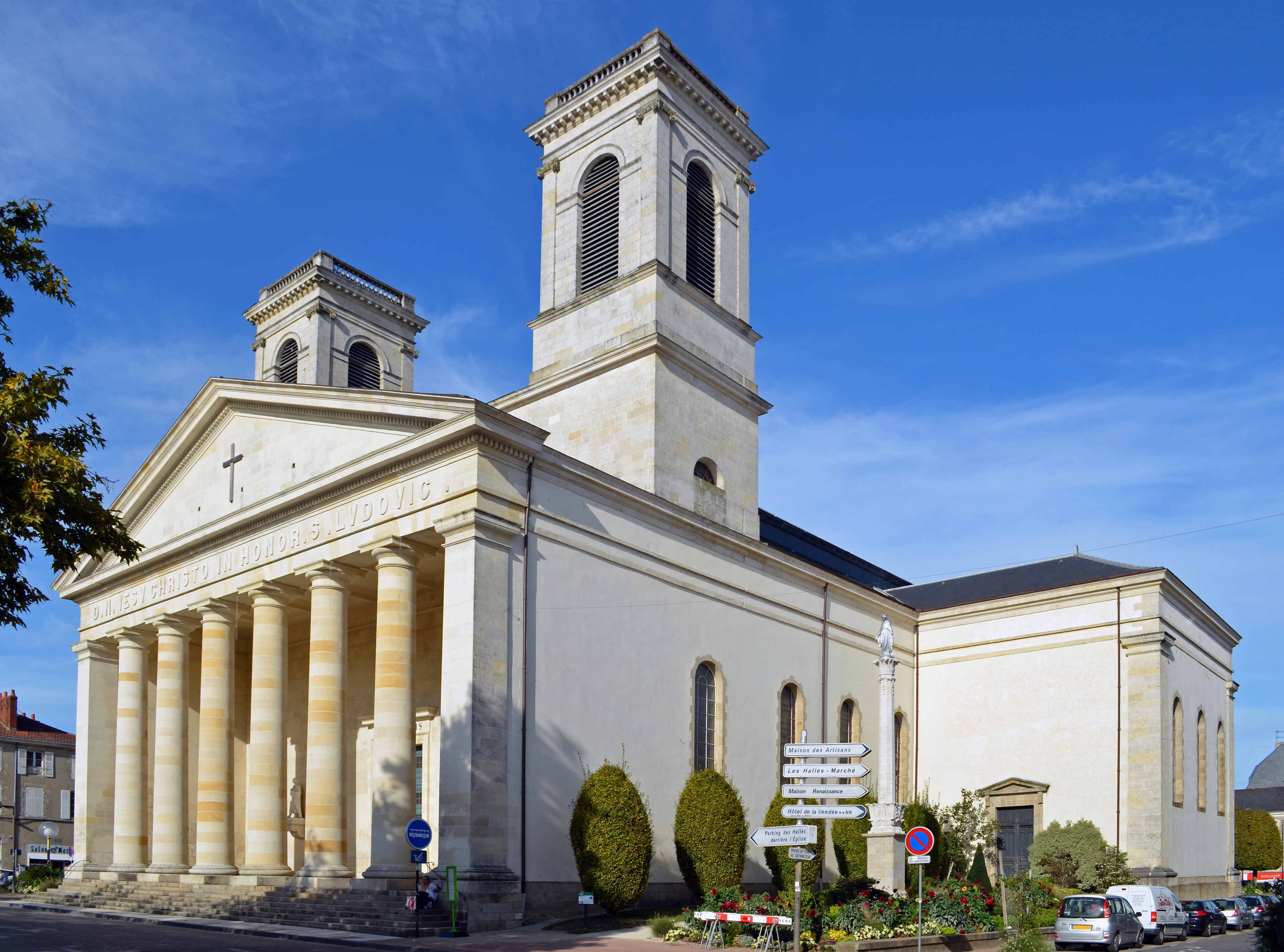 Saint-Louis church, built from 1813 to 1830 - La Roche-sur-Yon .